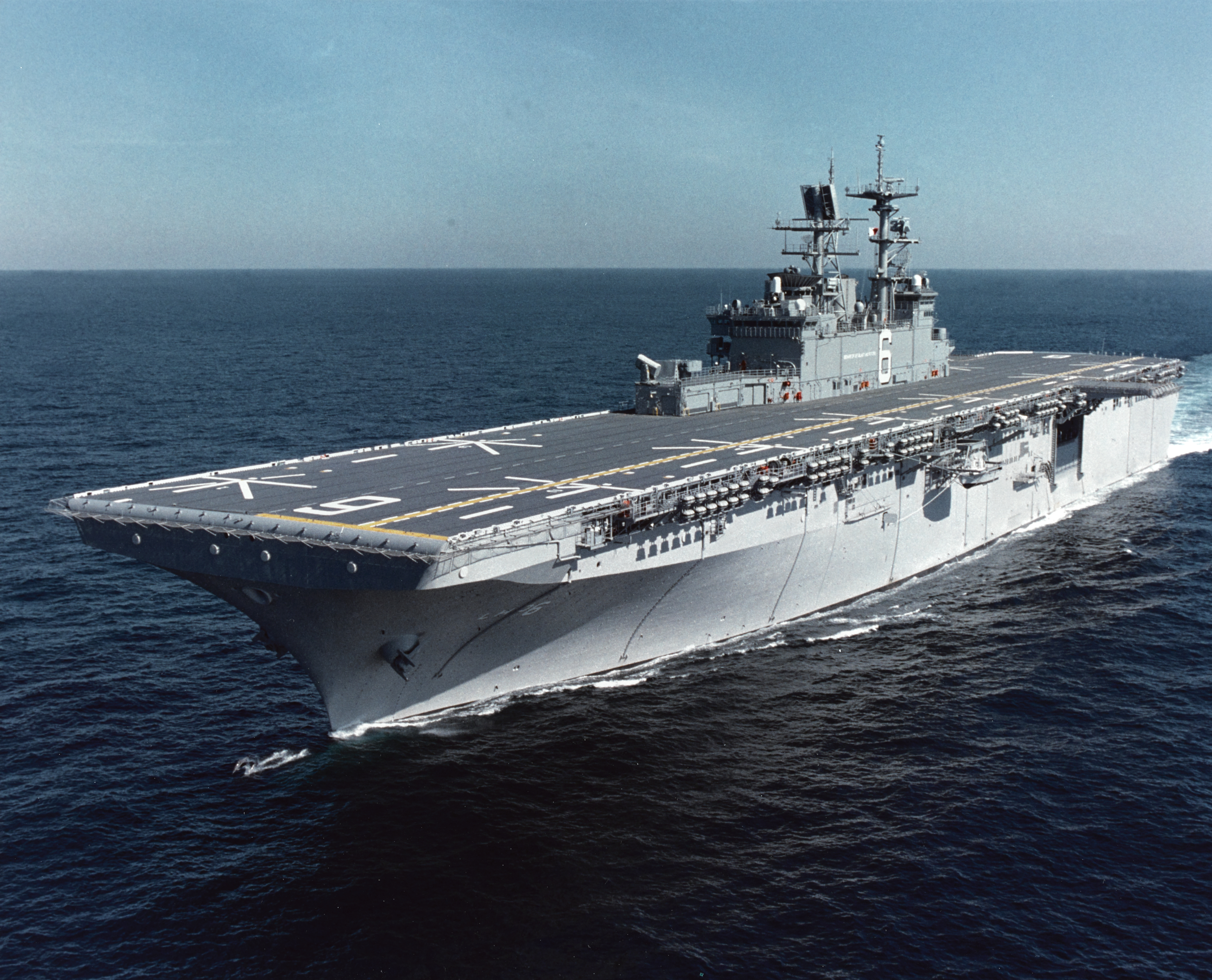 The U.S. Navy amphibious assault ship USS Bonhomme Richard (LHD-6) underway in the Gulf of Mexico during builder's sea trials, circa in early 1998.